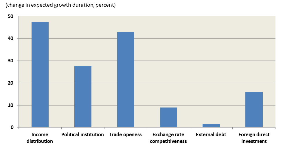 Percentage changes in GDP growth spell length as each factor moves from 50th to 60th percentile and all other factors are held constant. Income distribution is measured by the Gini coefficient. Political institutions are measured by the Polity IV Project scale. Exchange rate competitiveness is measured by rate deviation from purchasing power parity adjusted for per capita income.